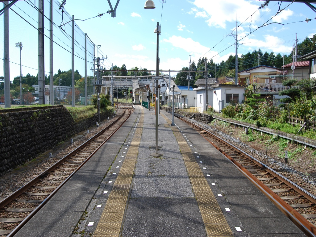 The platform at Ōkuwa Station on the Tobu Kinugawa Line in Tochigi Prefecture, Japan